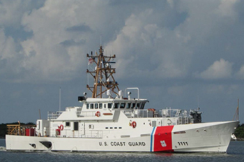 The fast response cutter William Trump, shown above, entered service at its home port of Key West, Florida, Jan. 24, 2015. Each FRC is 154 feet long, can travel at speeds of at least 28 knots, and has a range of 2,950 nautical miles and endurance for five days.